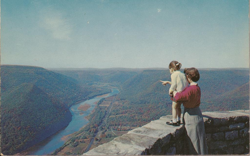 An old post card from Hyner View. The mother's name is Sarah Jobson McCann. The daughter's name is Mary McCann Holder. The picture was taken approx 1955. My Grandmother and Mother, both of whom lived in the nearby town of Renovo, were at Hyner View and were approached by a photographer who asked if they would like to be in a photograph. The photograph was made into a postcard.